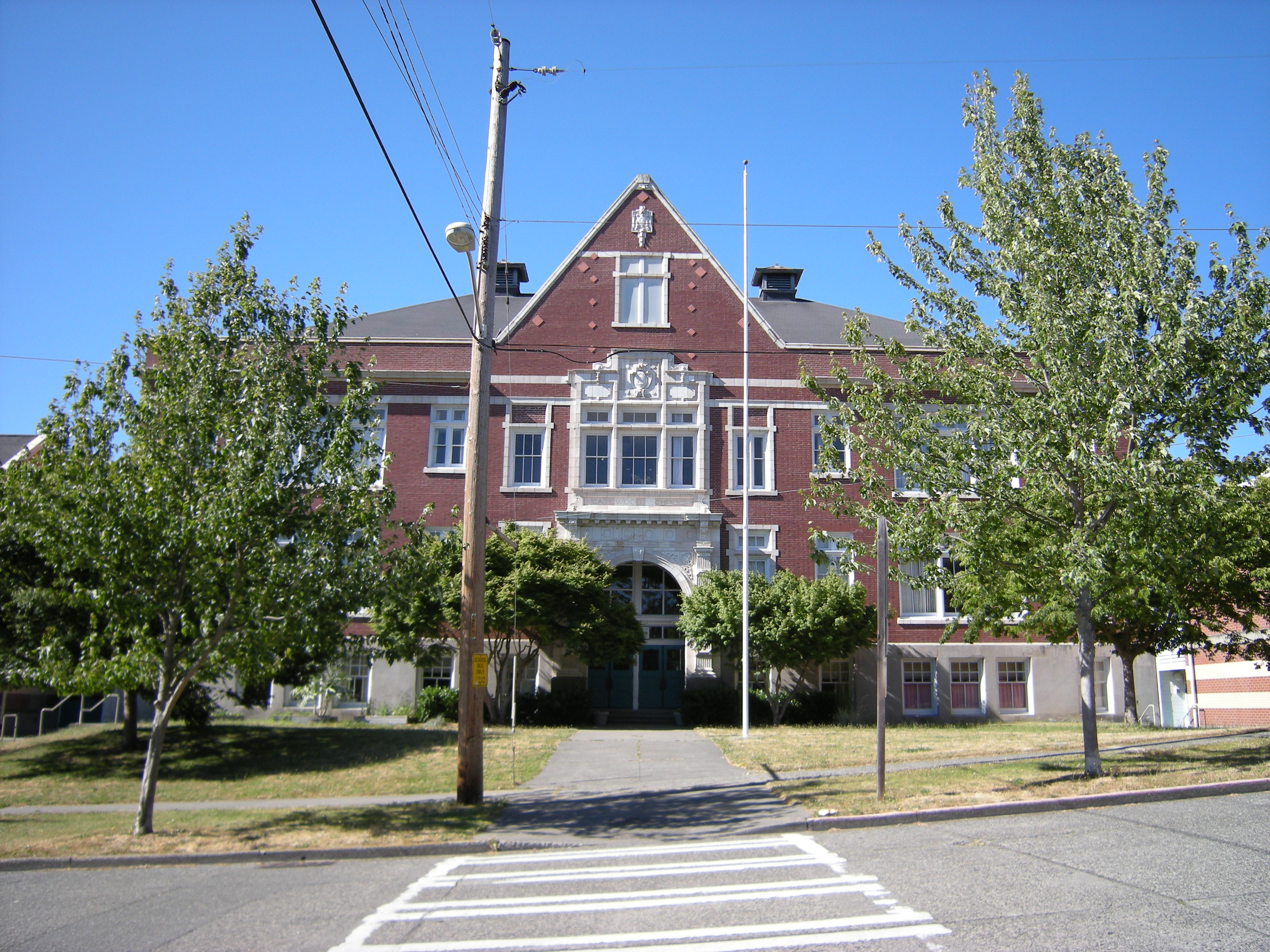 Gatewood School, West Seattle, Seattle, Washington. The building is an official city landmark.